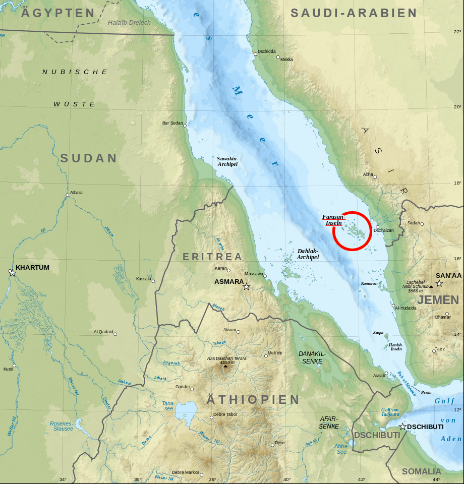 Farasan Islands between Saudi-Arabia (Asir), Yemen and Eritrea